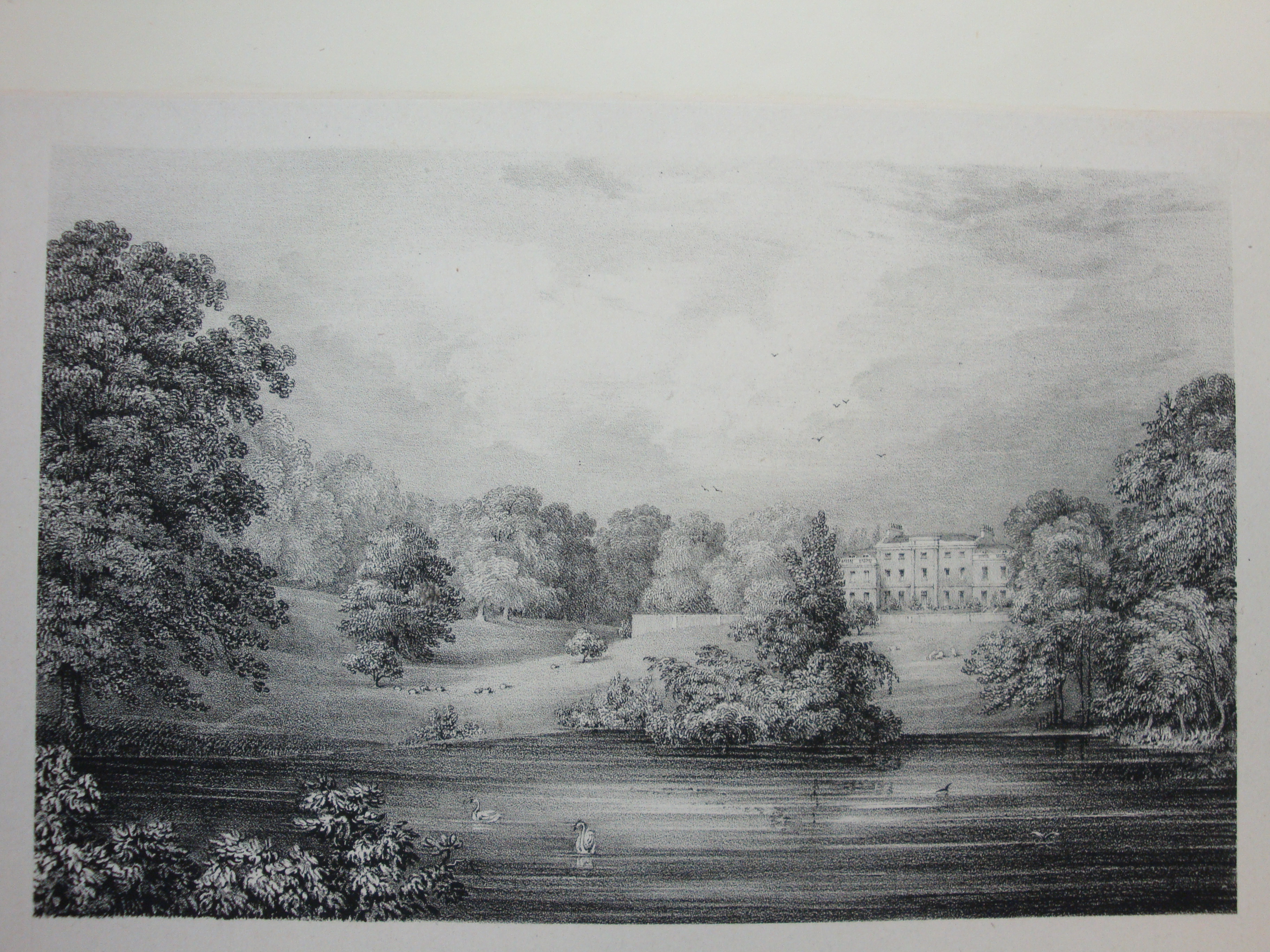 Engraving from 1830